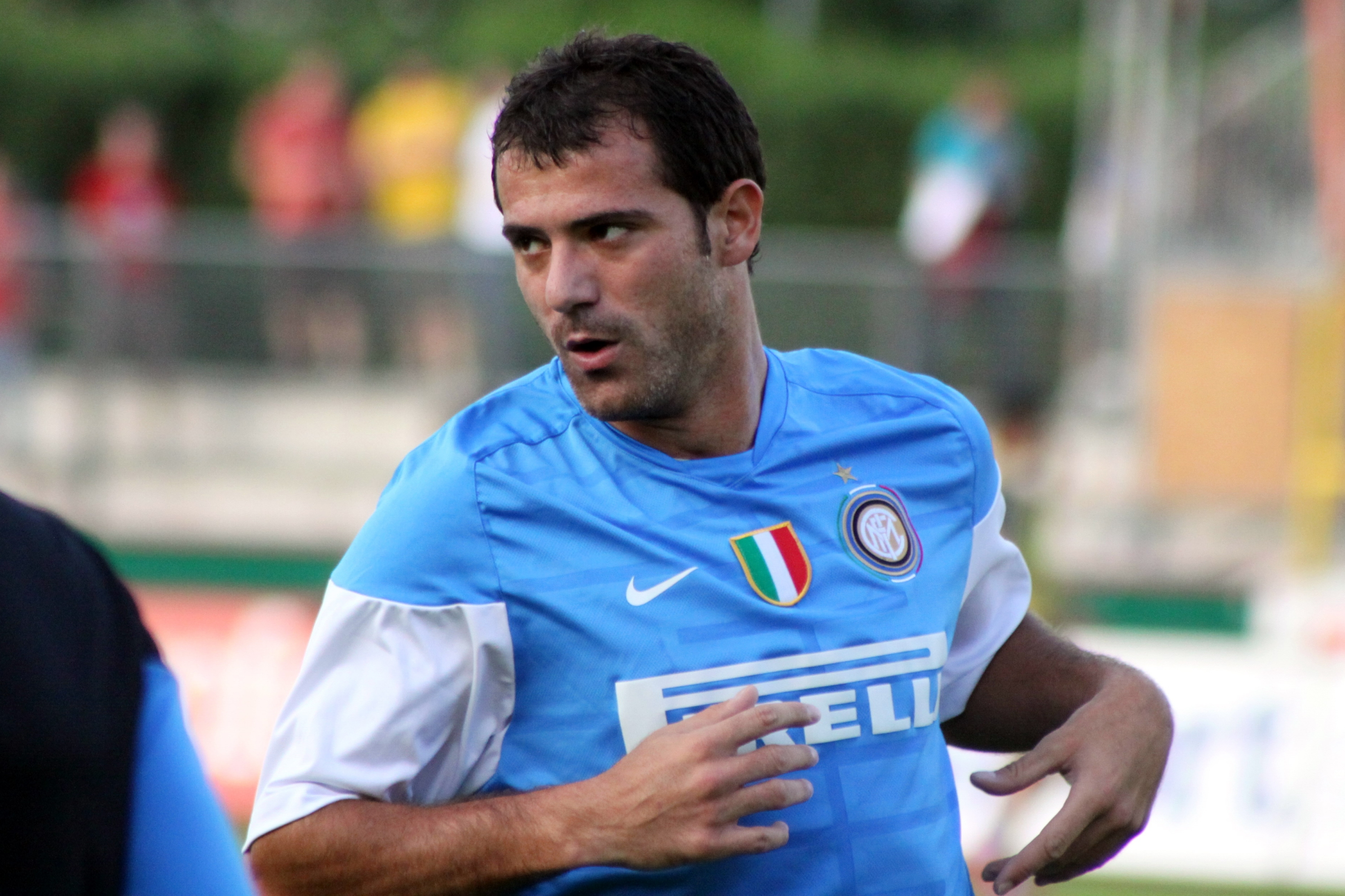 Dejan Stanković - F.C. Internazionale Milano.